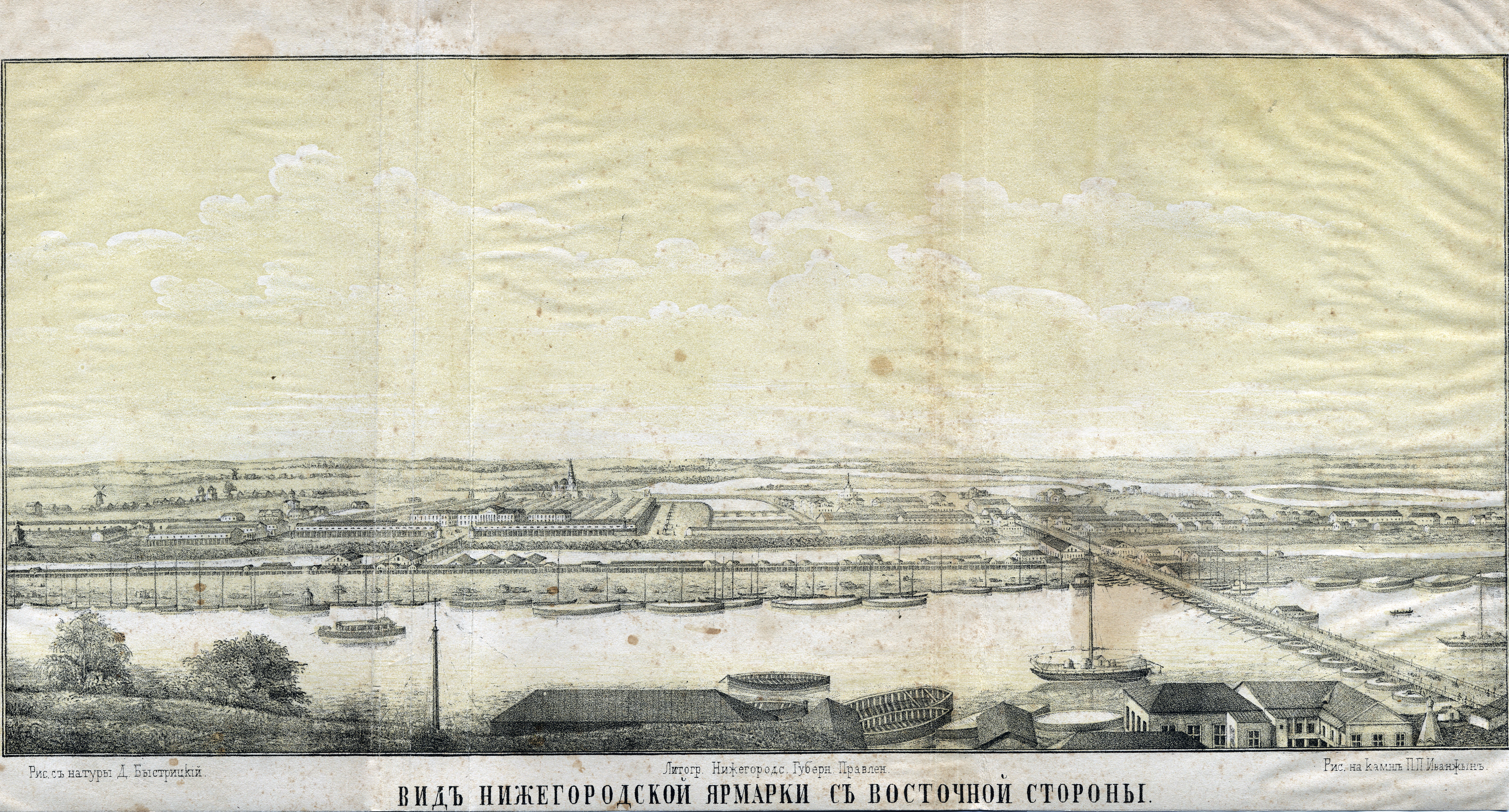 Nizhny Novgorod Trade fair